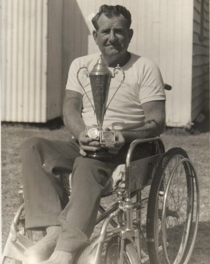 Paralympian Roy Fowler holding a large trophy in his lap and two medals in small presentation cases.